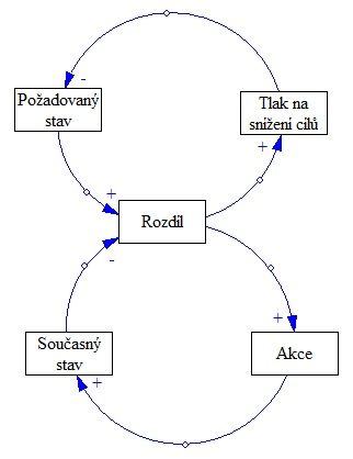 Eroding (drifting) goals archetype diagram